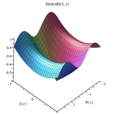 Struve H function complex plot